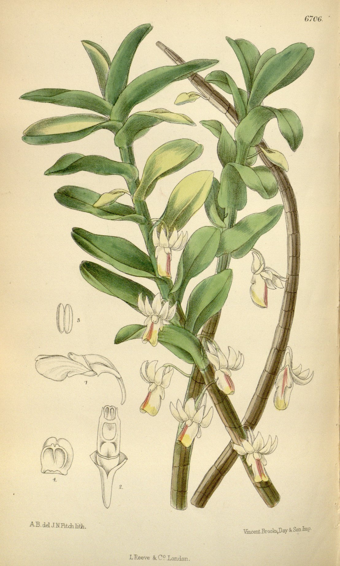 Illustration of Dendrobium revolutum